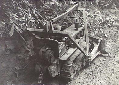 A bulldozer clears a path through the jungle during the Australian advance to the Hongorai River on Boungainville in May 1945